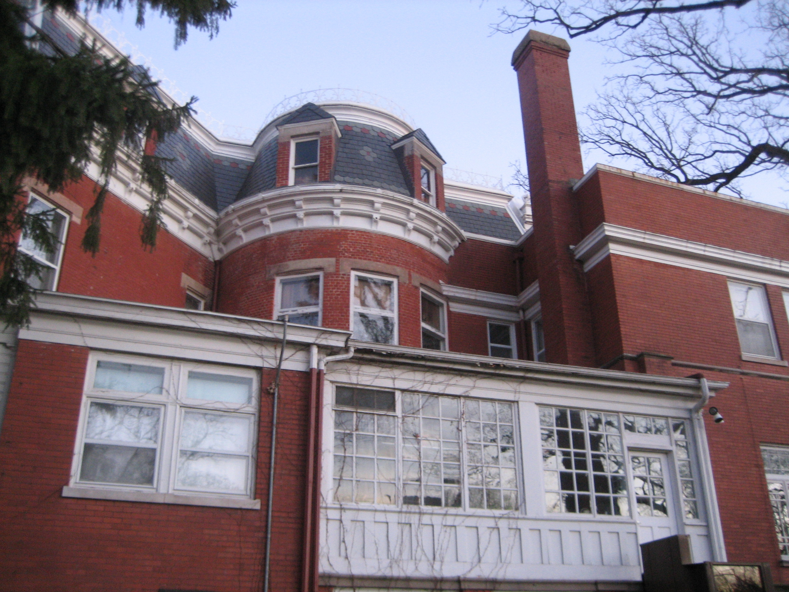 Sunroom, Ellwood House, DeKalb, Illinois. National Register of Historic Places.